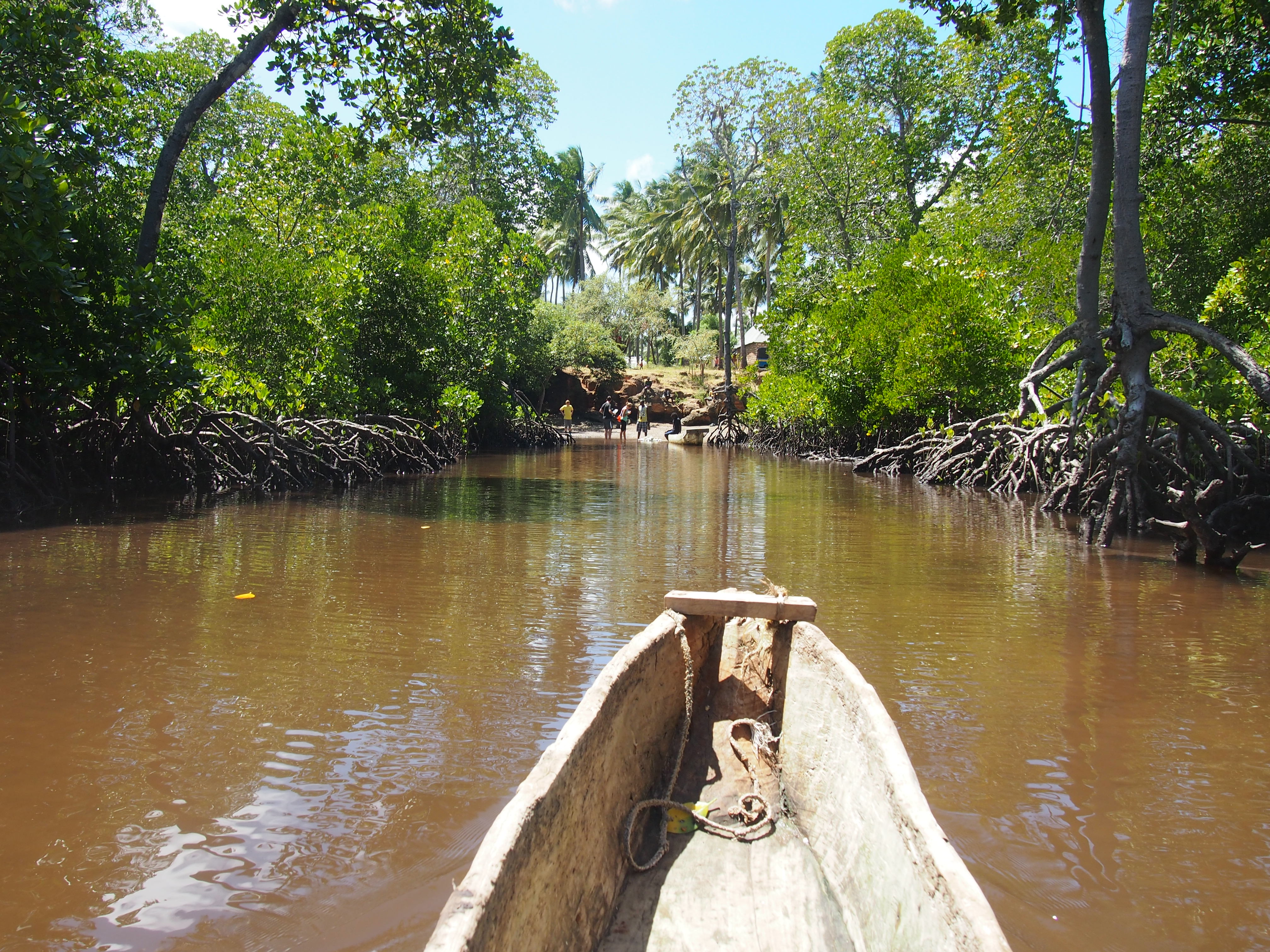 Mida Creek near Watamu, Kenia at high tide